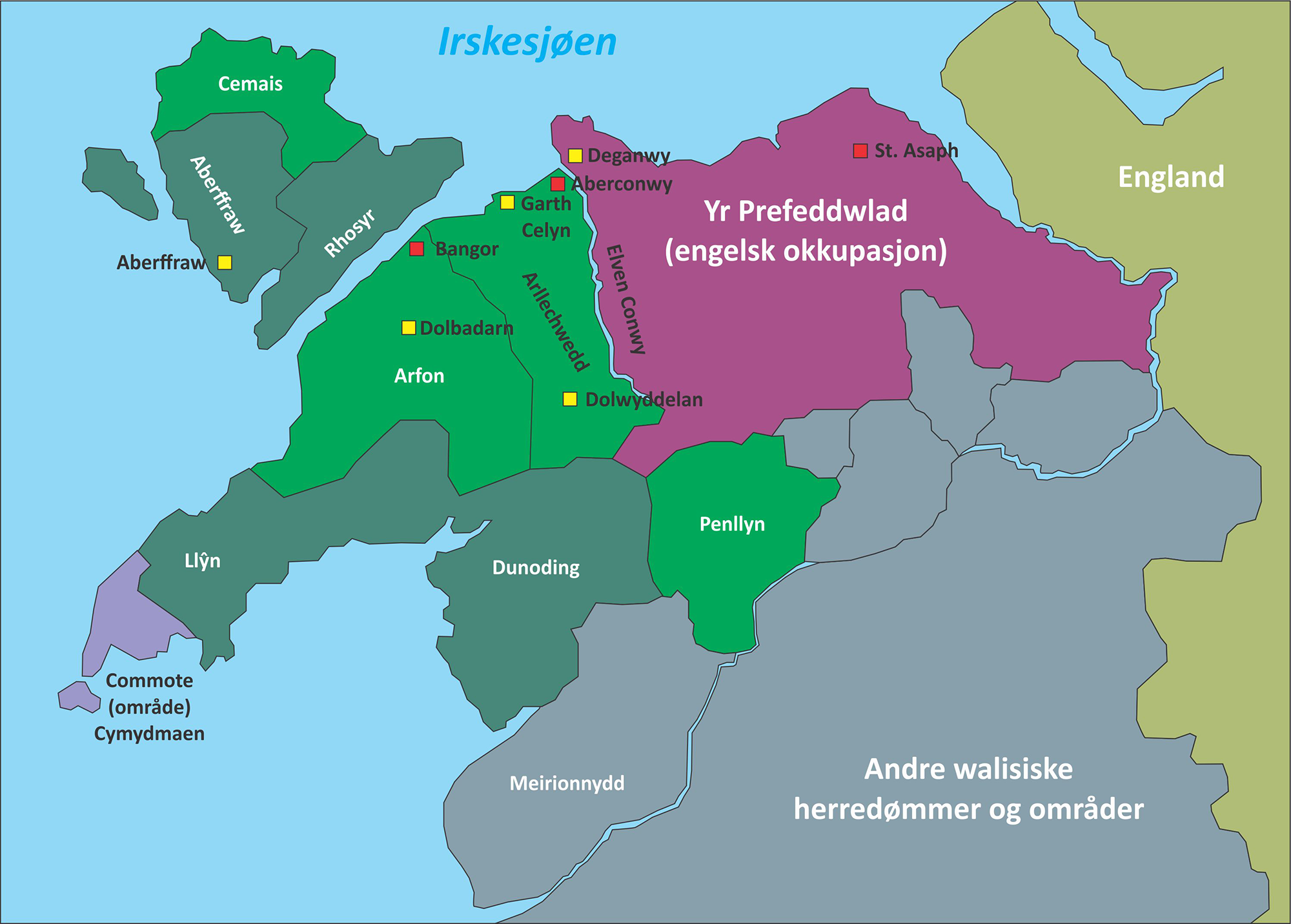 The situation in Gwynedd following the division of 1247 on map of the cantrefi, principal forts and political centres of Gwynedd at the kingdom's maximum extent, based on the historic borders of "between Dyfi and Dee". Map based on freeware outline from . Maps found in J.Beverley Smith's "Llywelyn ap Gruffudd" (1998) as a visual guide. A simular map on